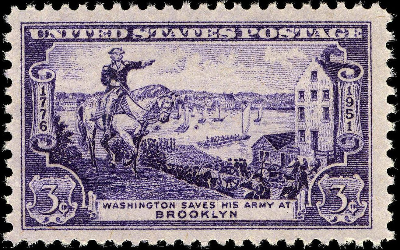 Image of Washington-Battle of Brooklyn stamp, 3-cent, 1951 issue